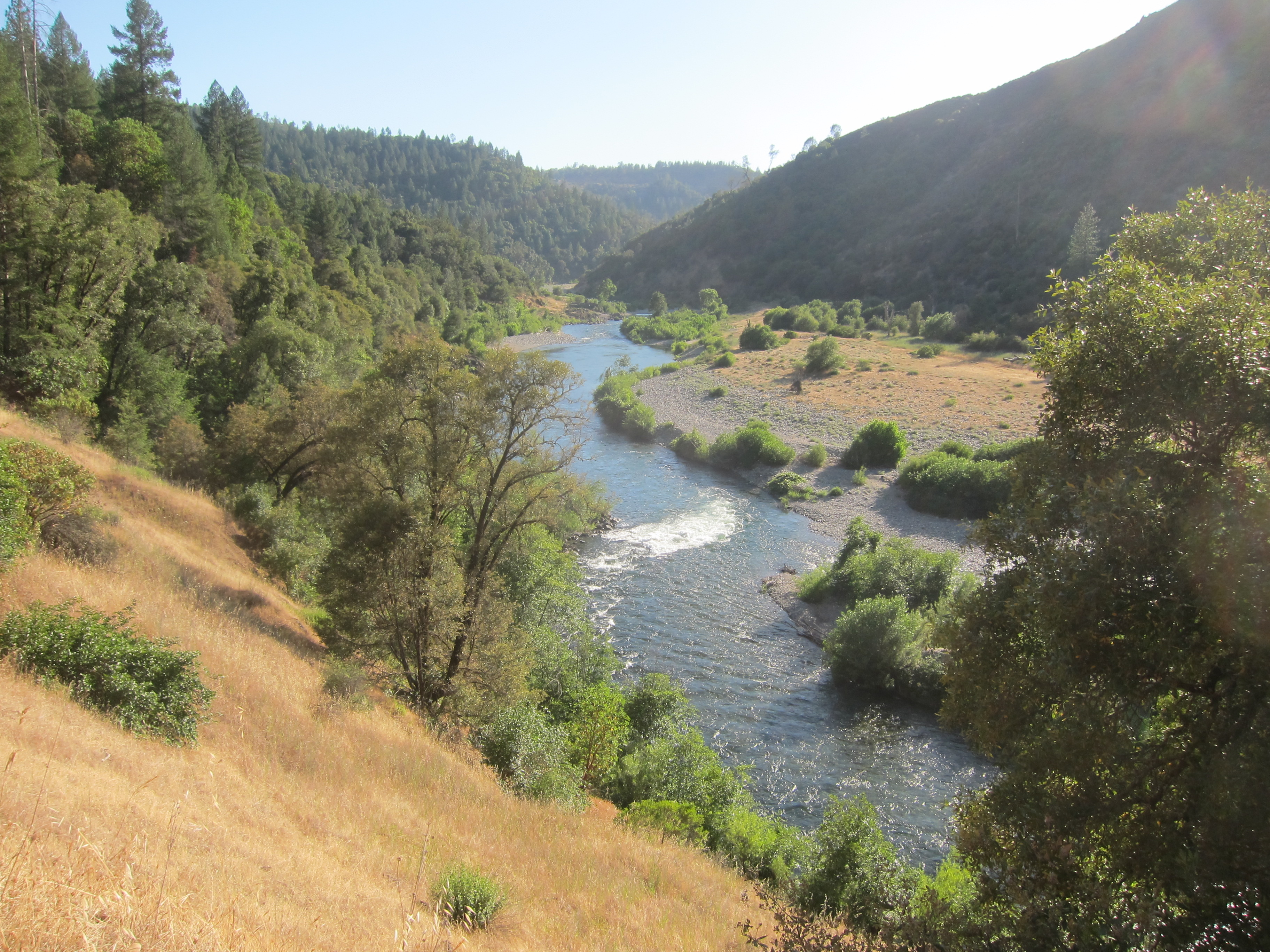 The Middle Fork American River viewed from Quarry Trail near Browns Bar, Auburn SRA